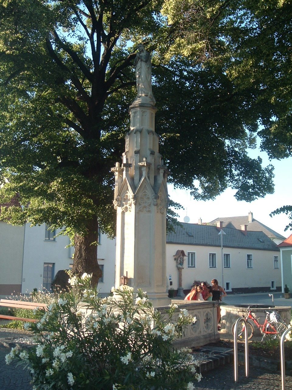 Purbach am Neusiedler See, Austria